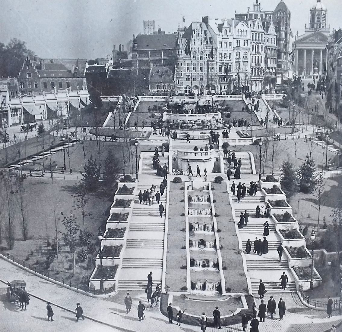 Photo of the provisional park of Pierre Vacherot at Mont des Arts/Kunstberg in Brussels